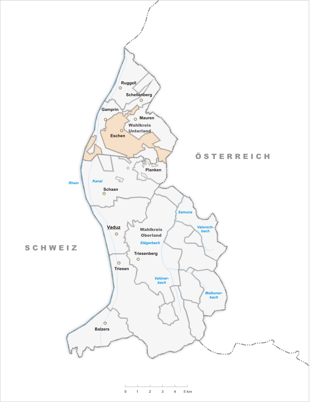 Municipality Eschen